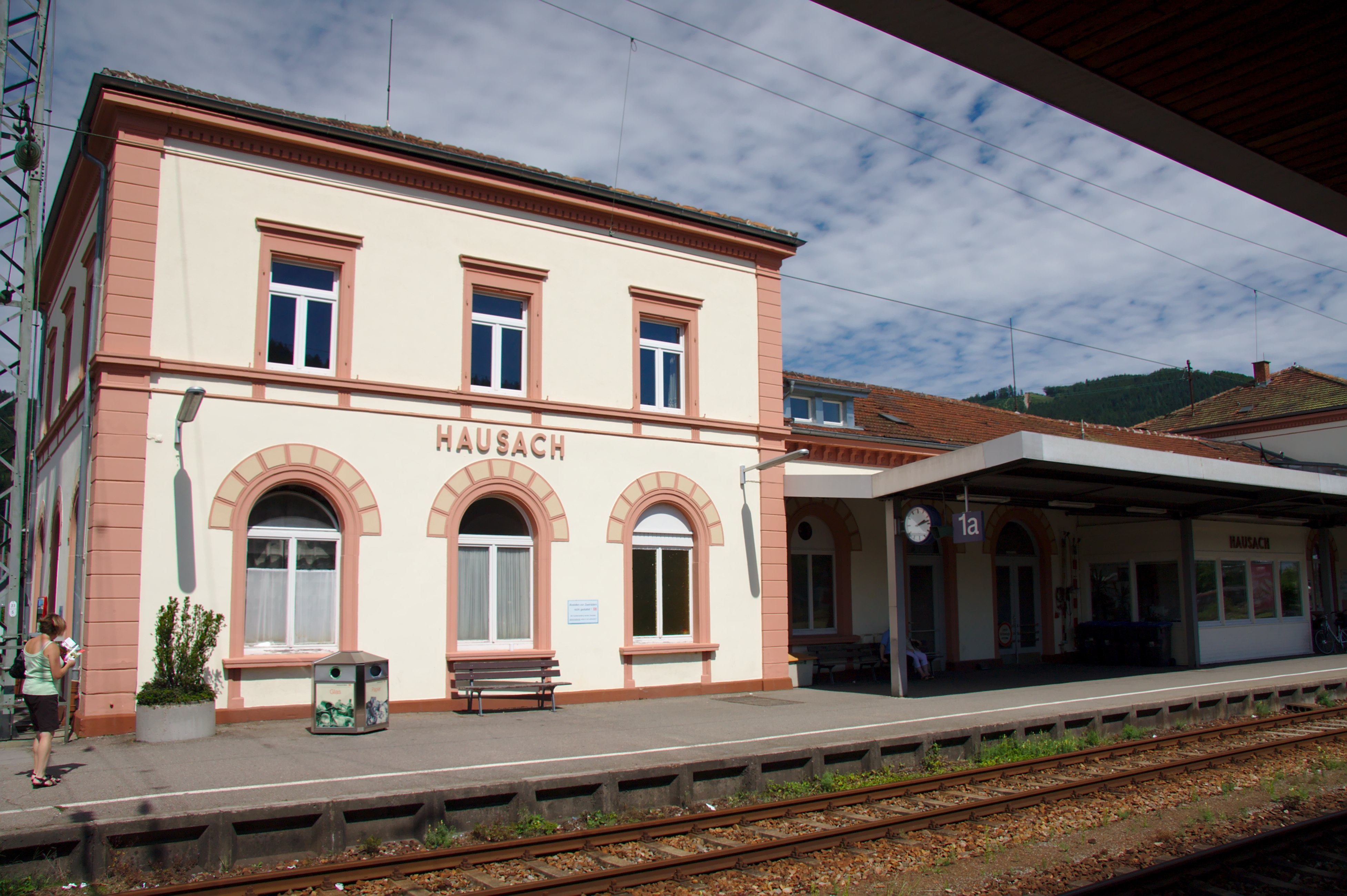 Deutschland Station, Germany